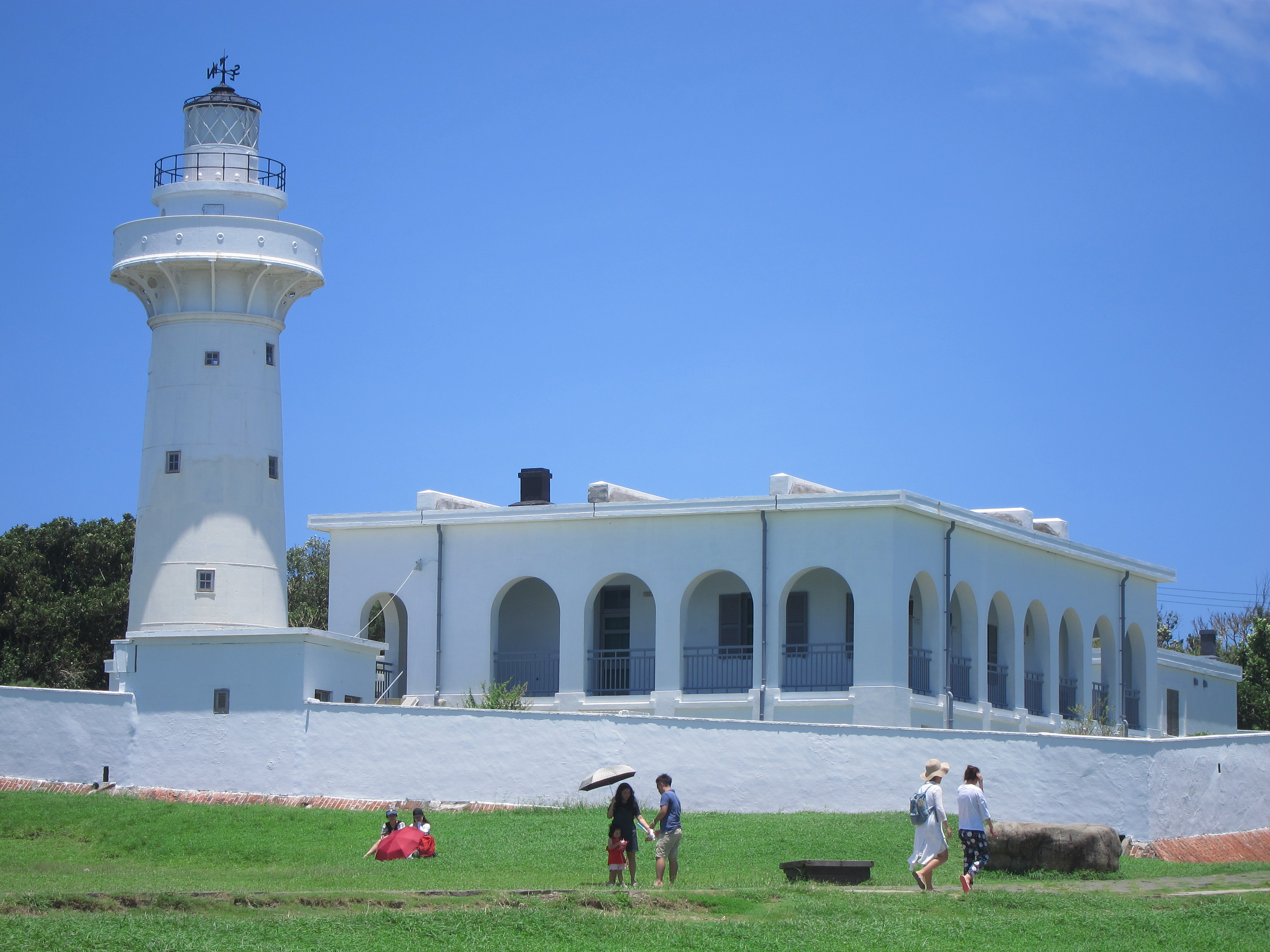 Lighthouse in Hengchun Township, Pingtung County, Taiwan.